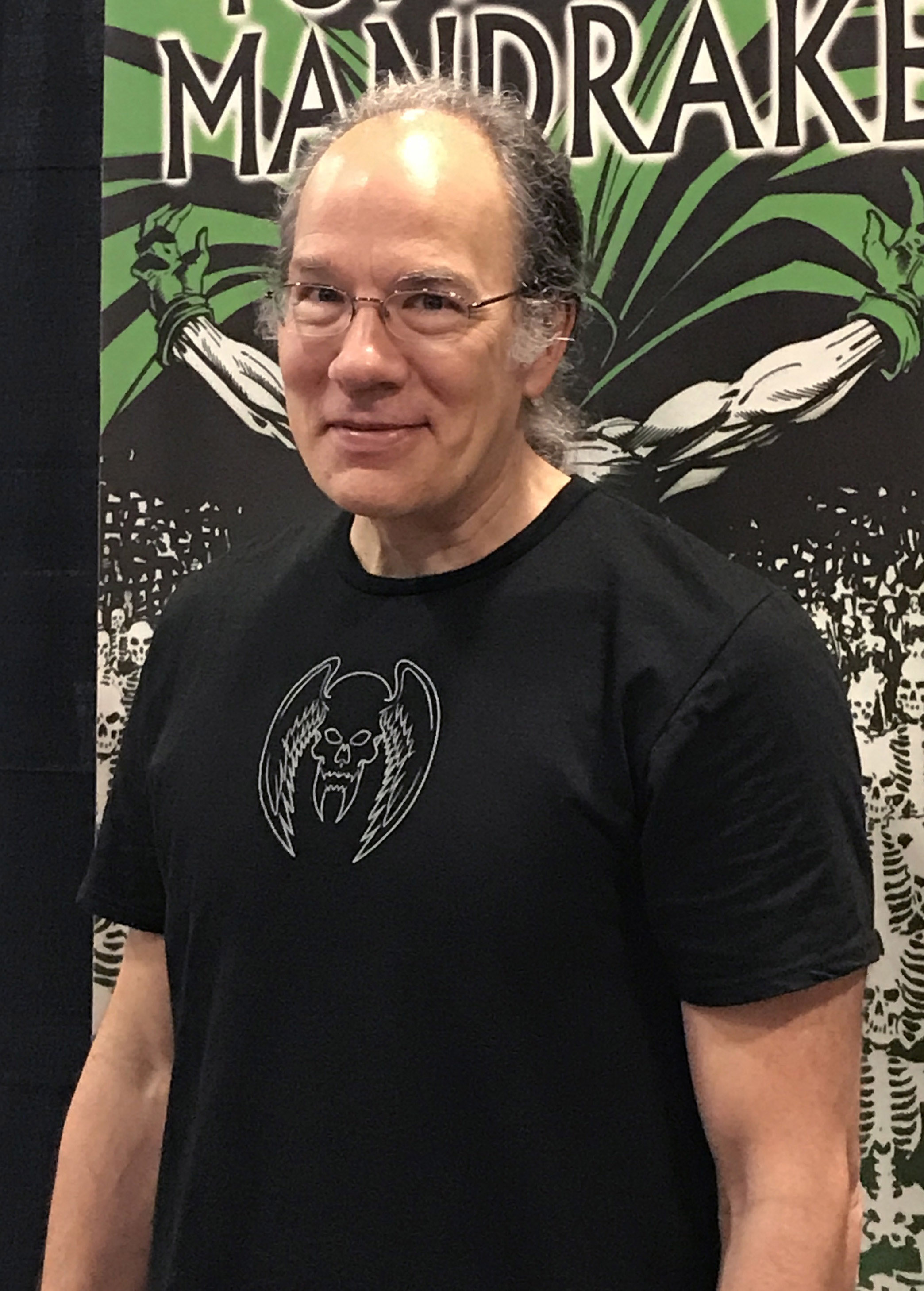 Comic book artist Tom Mandrake at the Meadowlands Exposition Center in Secaucus, New Jersey on Saturday, April 29, 2017, Day 1 of the East Coast Comicon. This photo was created by Luigi Novi. It is not in the public domain, and use of this file outside of the licensing terms is a copyright violation.